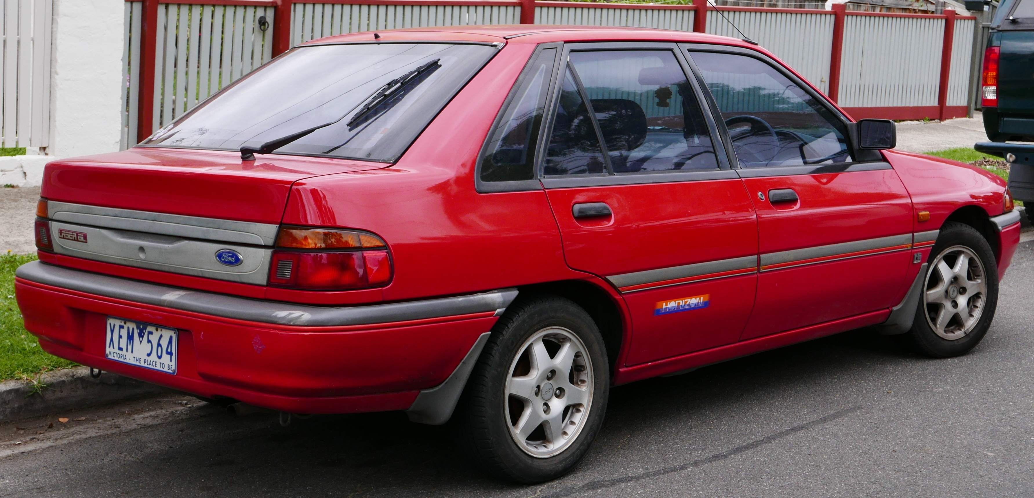 1994 Ford Laser (KH) GL Horizon 5-door hatchback. Photographed in Northcote, Victoria, Australia. Vehicle registration enquiry results Jurisdiction Victoria Registration XEM564 Chassis code 6FPAAAUK5DRU54520 Engine code B6427774 Compliance date 1994-06 Year of manufacture 1994